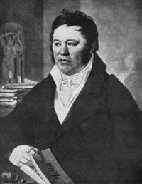 Václav Tomášek